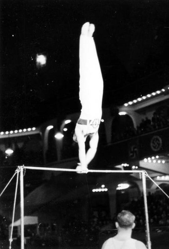 Information added by Wikimedia users.*